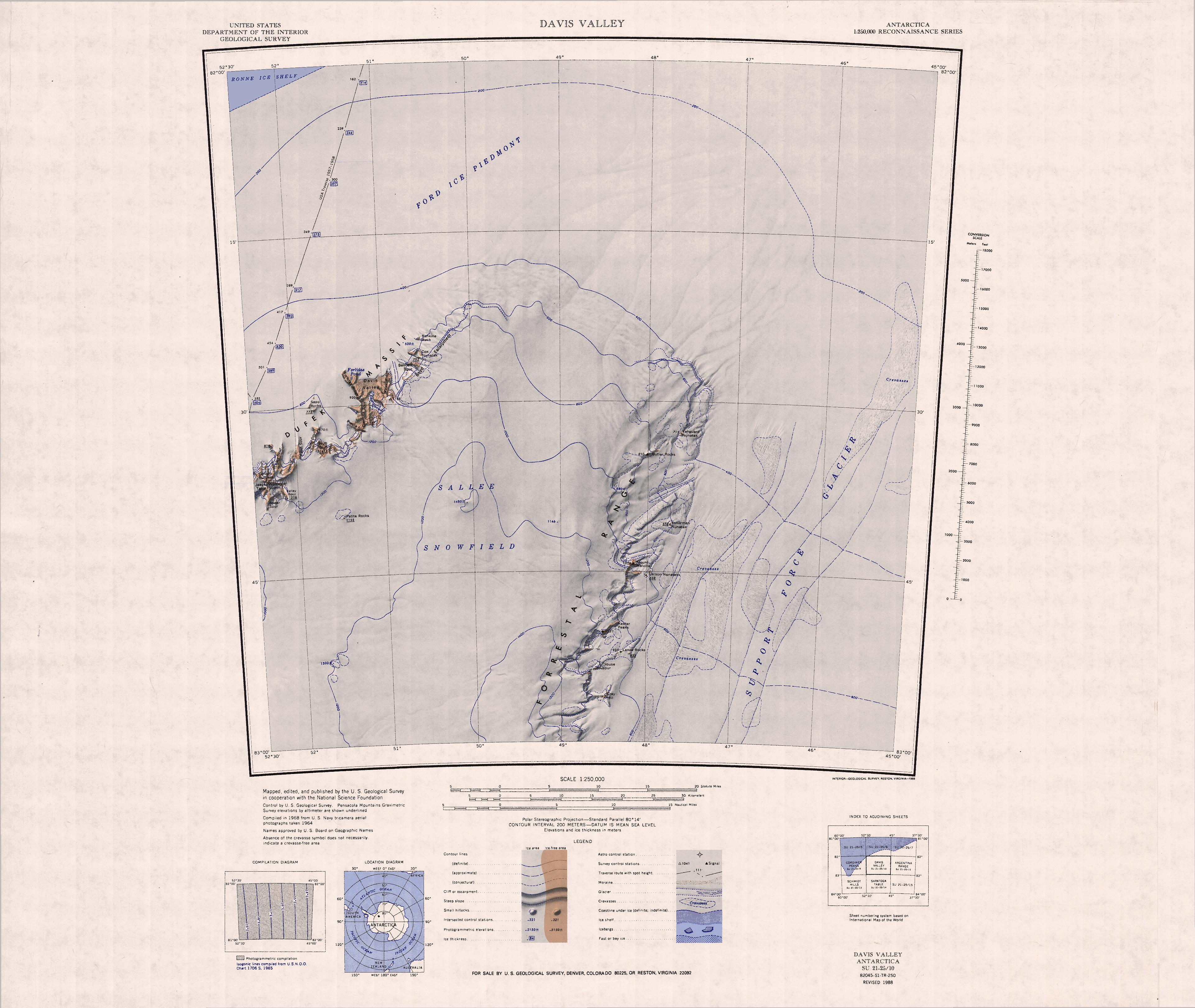 Map of Antarctica by the United States Antarctic Resource Center of the US Geological Society.